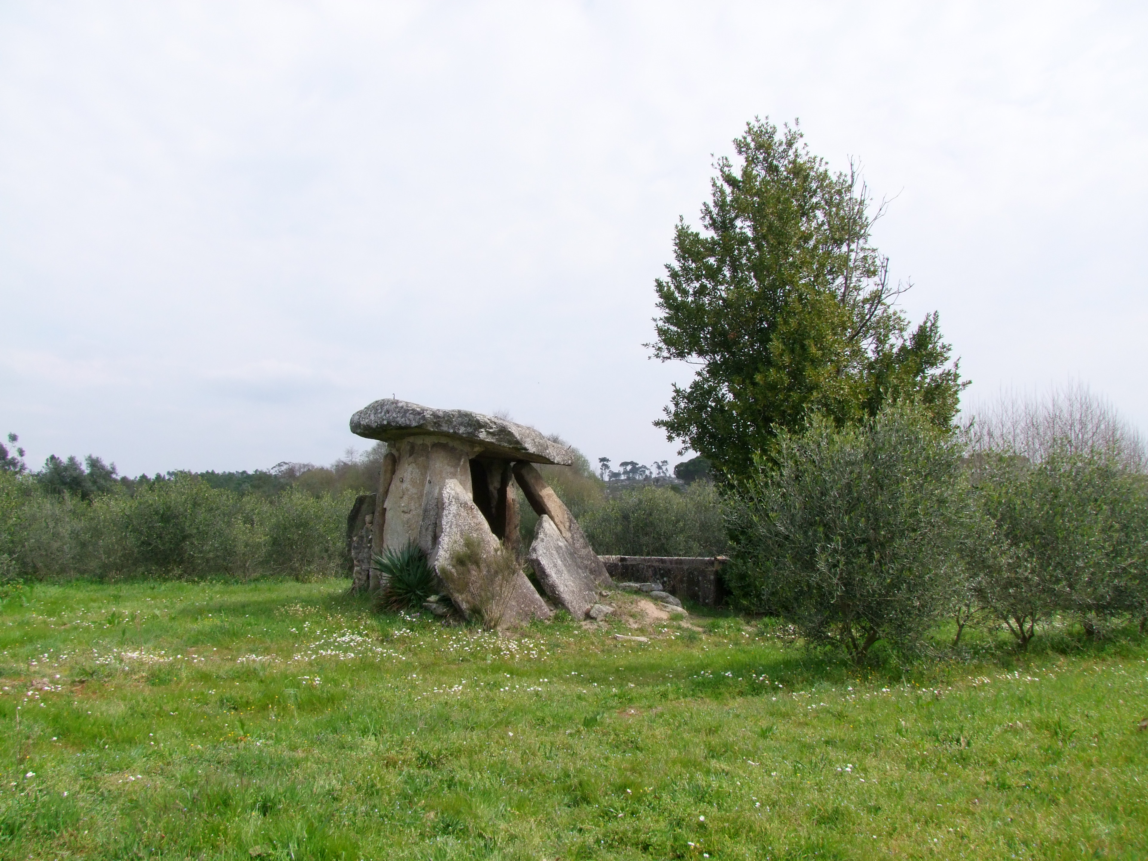 Restaured dolmen, using the original capstone and uprights.